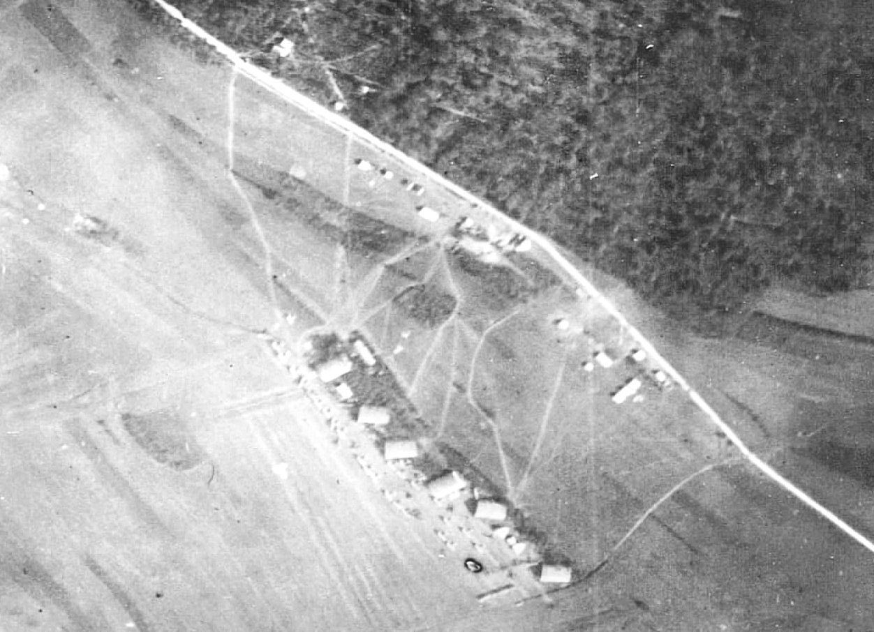 Maulan Aerodrome - closeup - France.